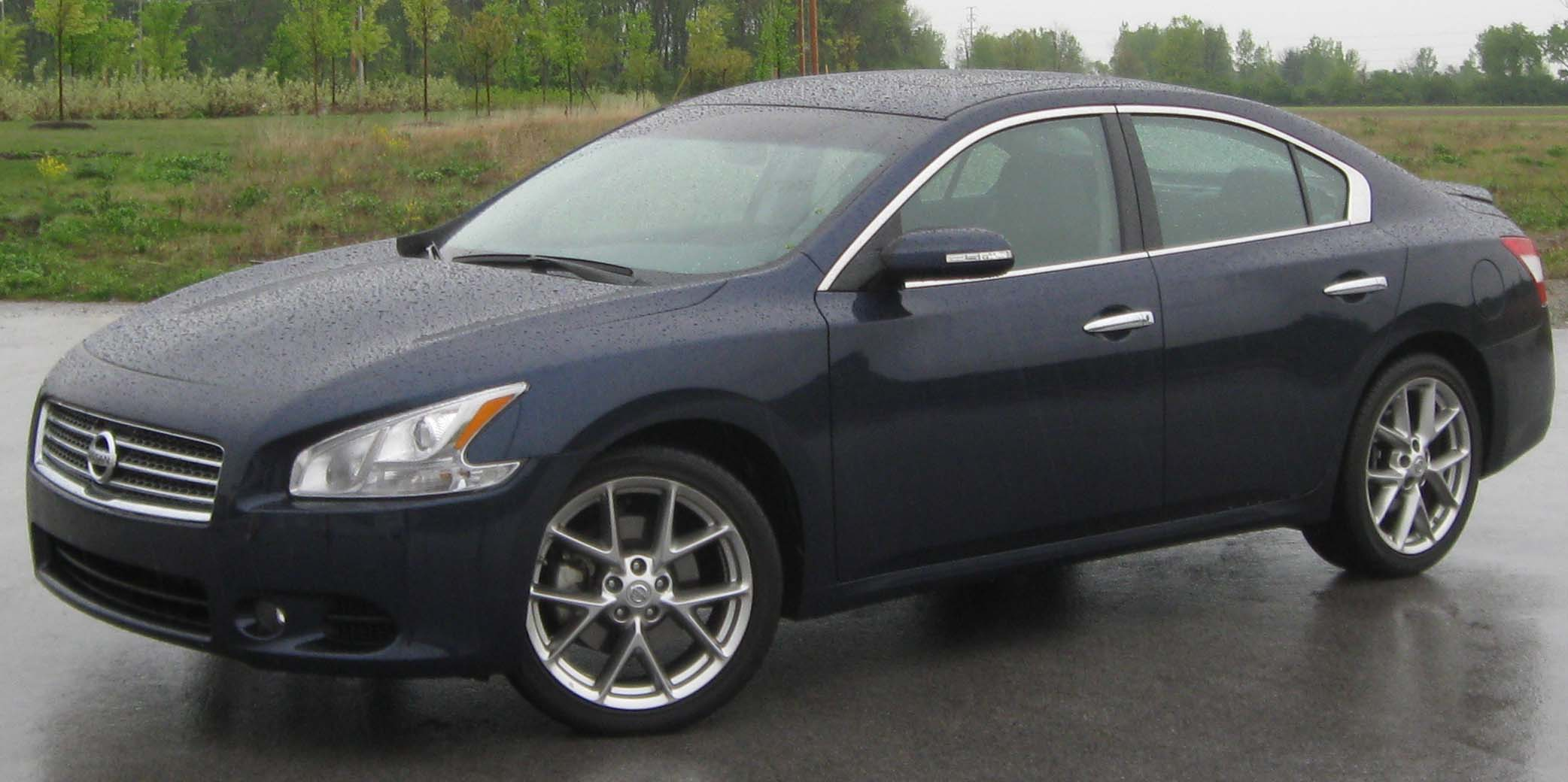 2010 Nissan Maxima photographed in Maumee, Ohio, USA.